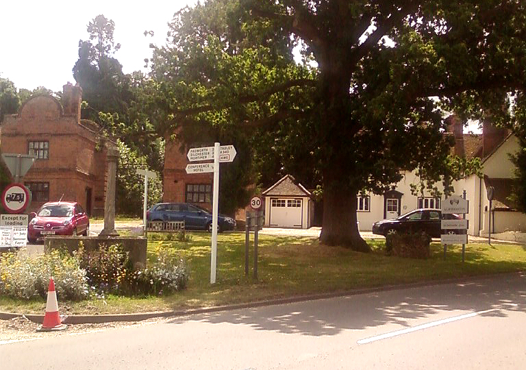 Photograph of the Loosey in Aldermaston village